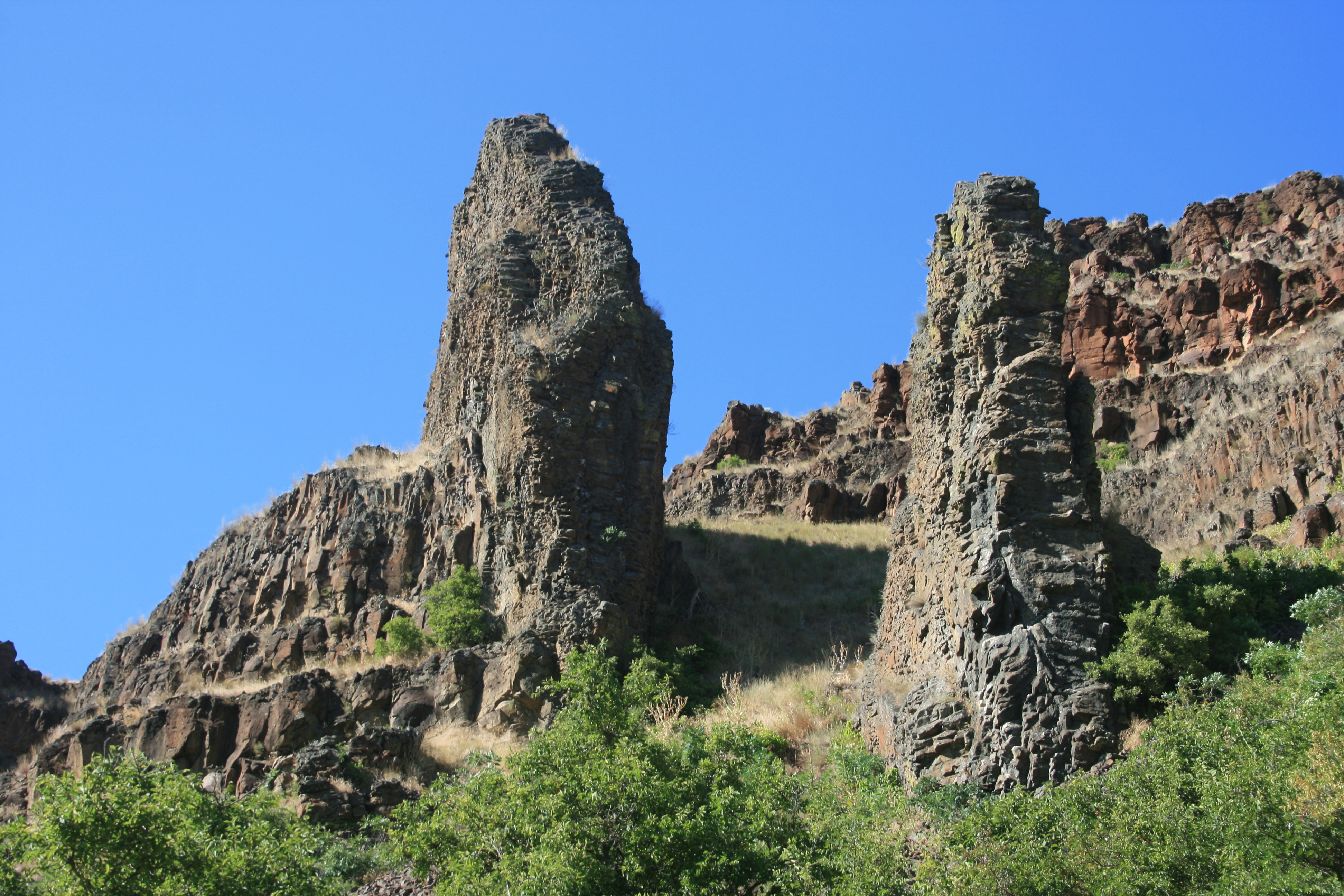 For use is in the Columbia River Basalt Group article. Illustrates Saddle Mountain dikes penetrating Grande Ronde basalts in Oregon, USA. Photo taken August 6th, 2011 by uploader. Skål - Williamborg (talk) 03:45, 8 August 2011 (UTC)